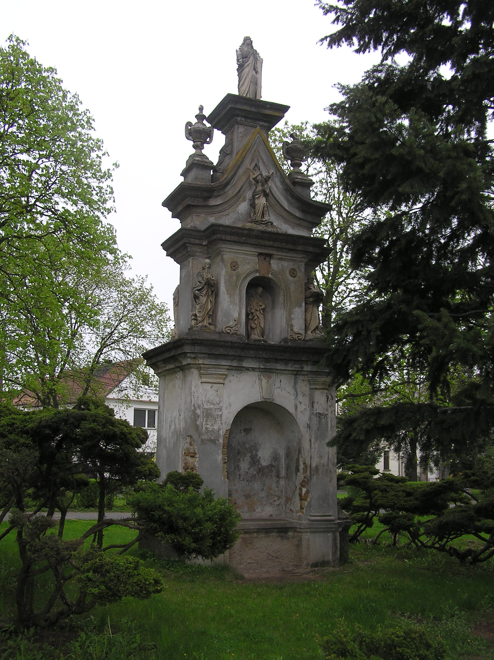 Chapel in Očihov